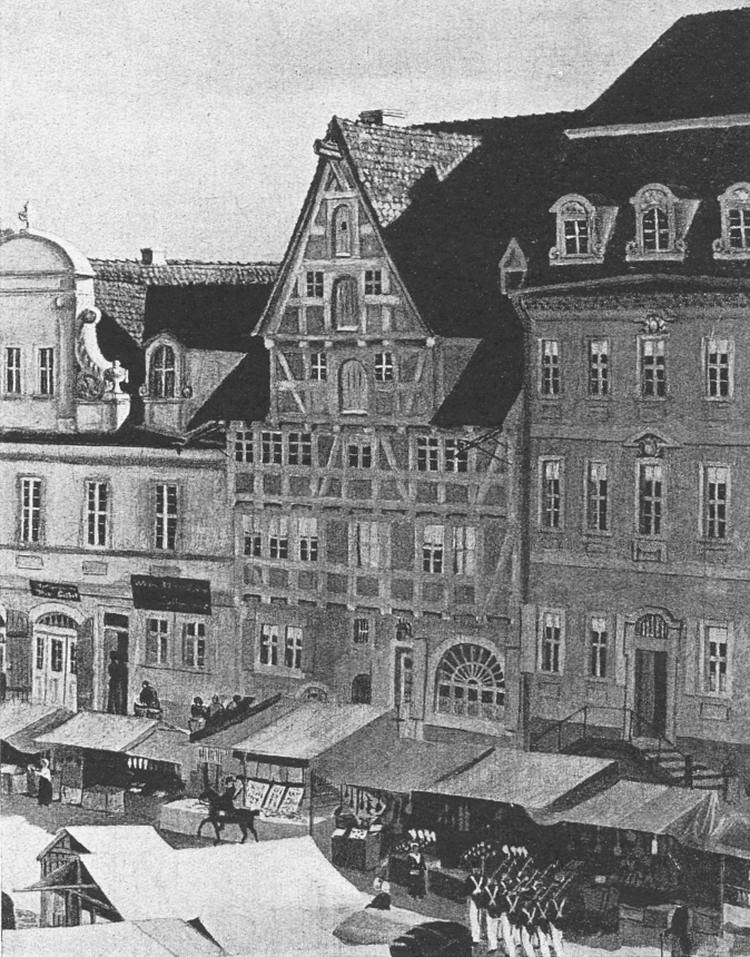 Die Pfälzer "Fischapotheke" zu Magdeburg